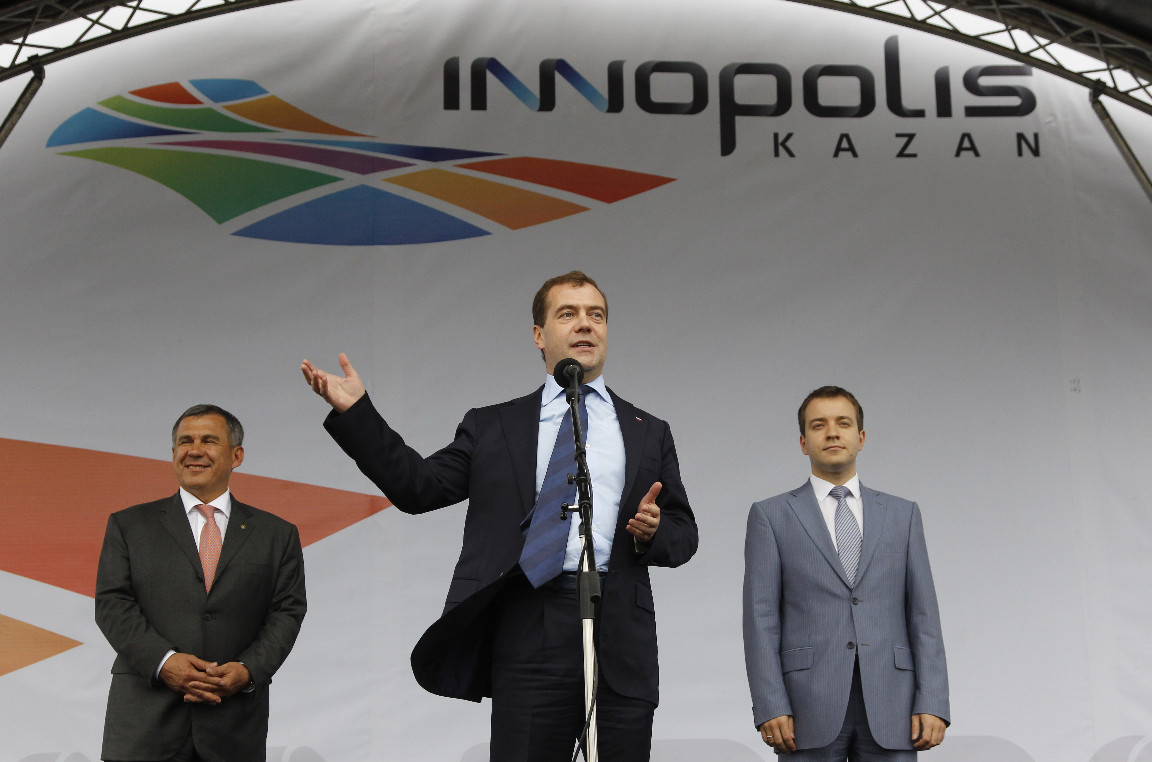 President of the Republic of Tatarstan Rustam Minnikhanov, Russian Prime Minister Dmitry Medvedev and Minister of Communications and Mass Media Nikolay Nikiforov at the capsule-laying ceremony for the future Innopolis satellite town.